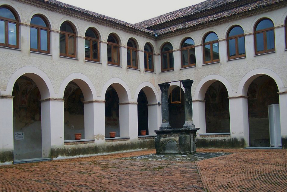 Convento di Santa Maria de Plano